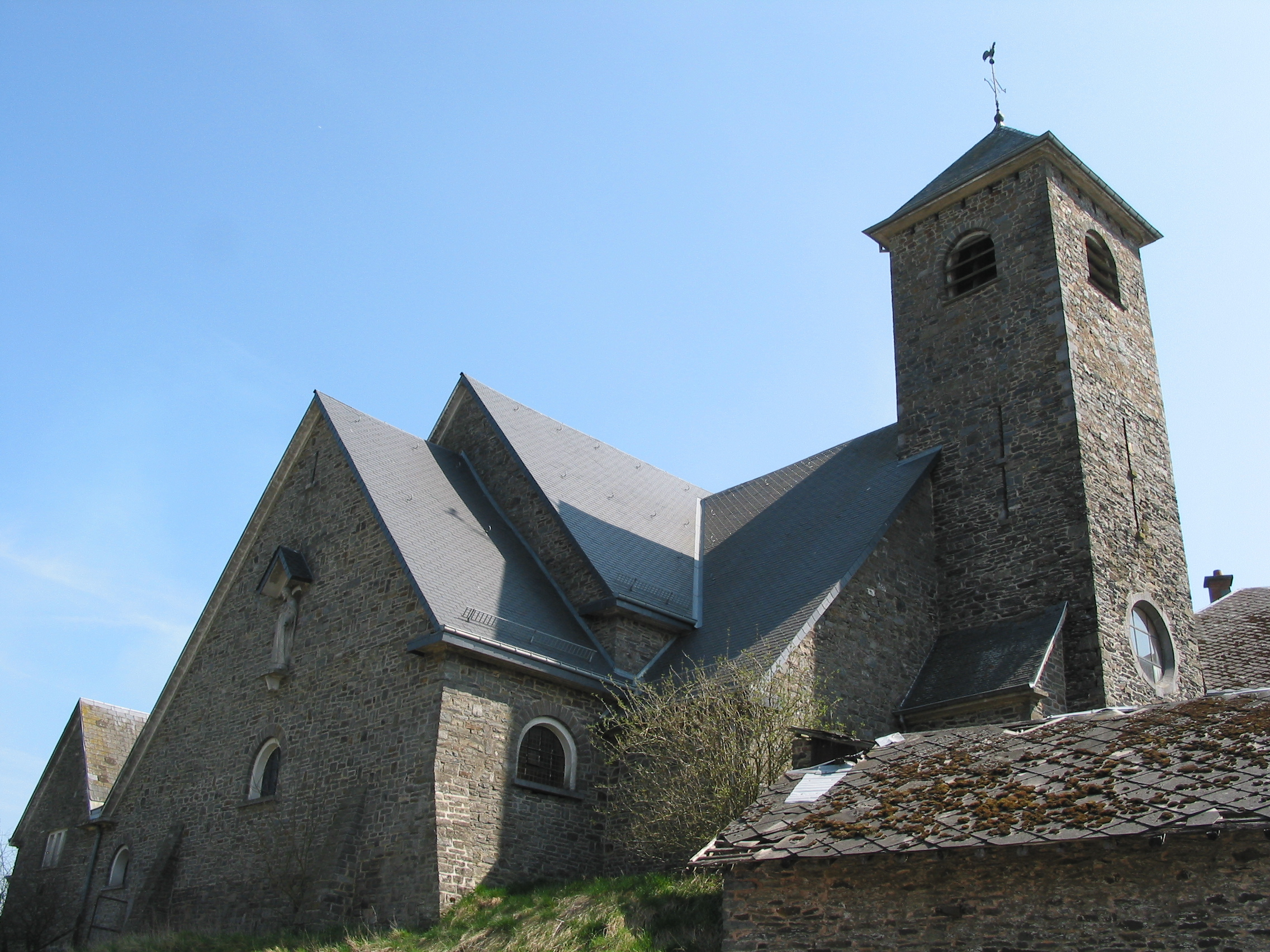 Compogne (Belgium), the St. Martin church (1949).